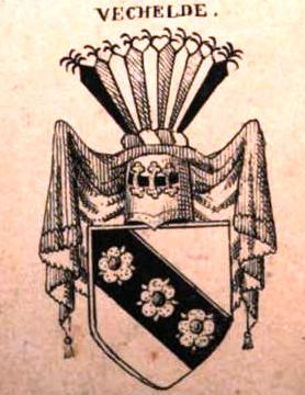 Wappen derer Vechelde (Otto Titan von Hefner 1861)